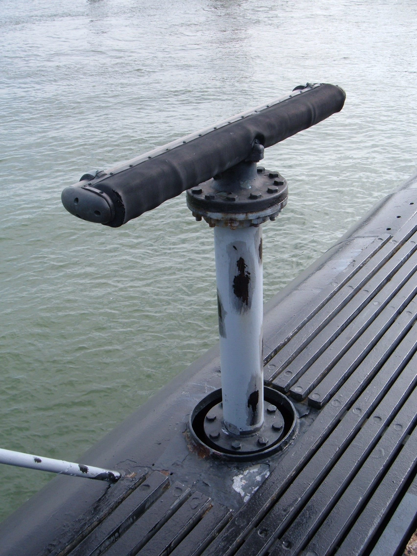 The topside hydrophone of the USS Pampanito (SS-383), berthed at Fisherman's Wharf in San Francisco.